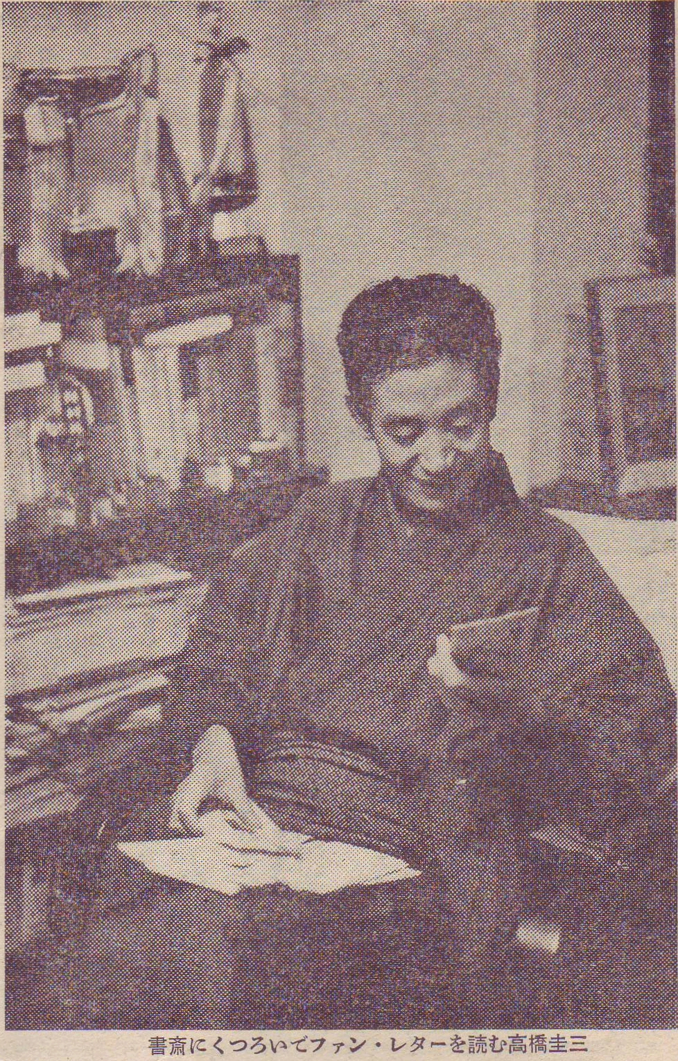 Keizo Takahashi (Television presenter from Japan. Member of the House of Councillors). taken in 1959.